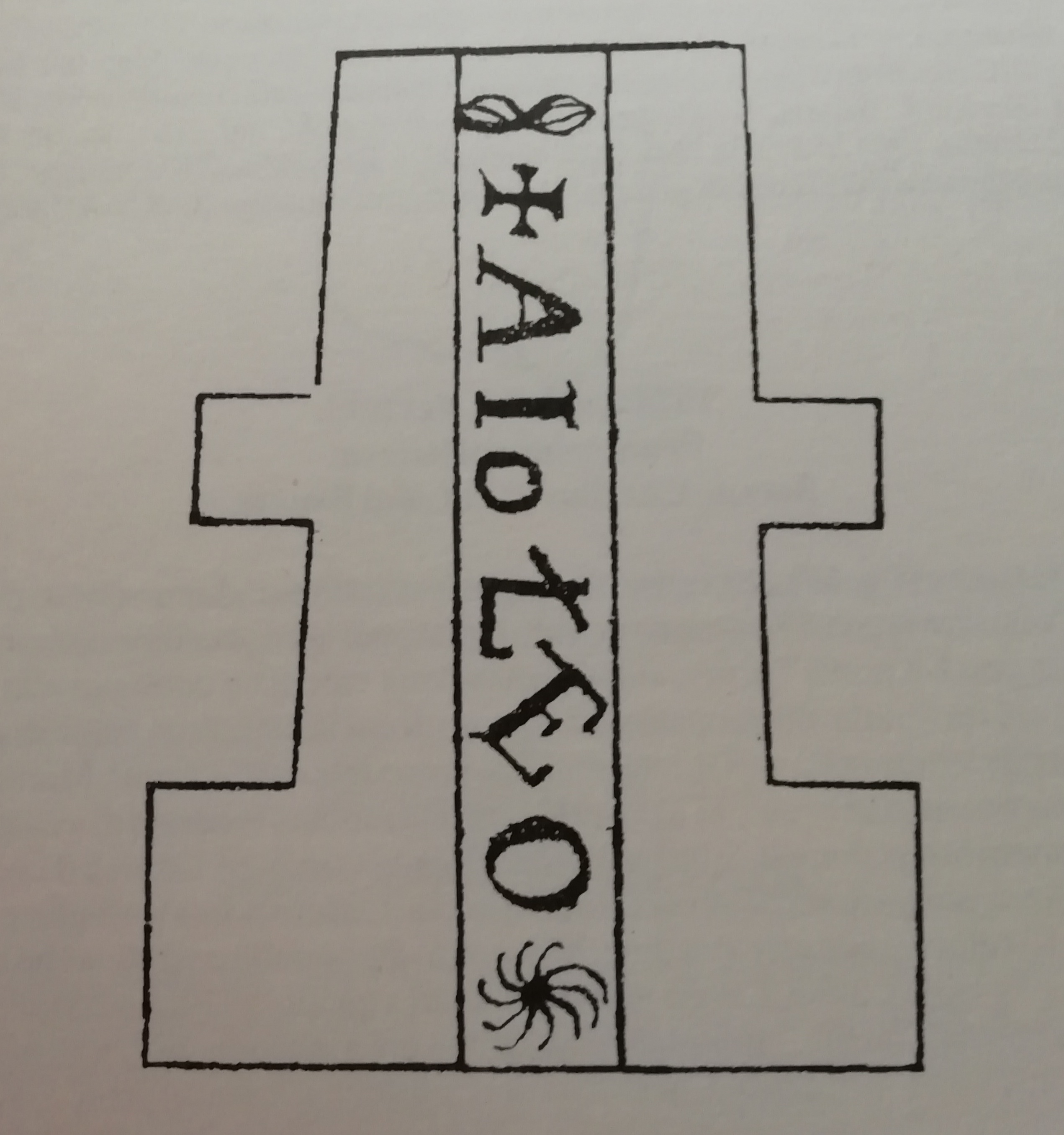 Luigi Bruzza Vercelli archaeology